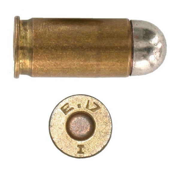 .455 Webley Auto Cartridge